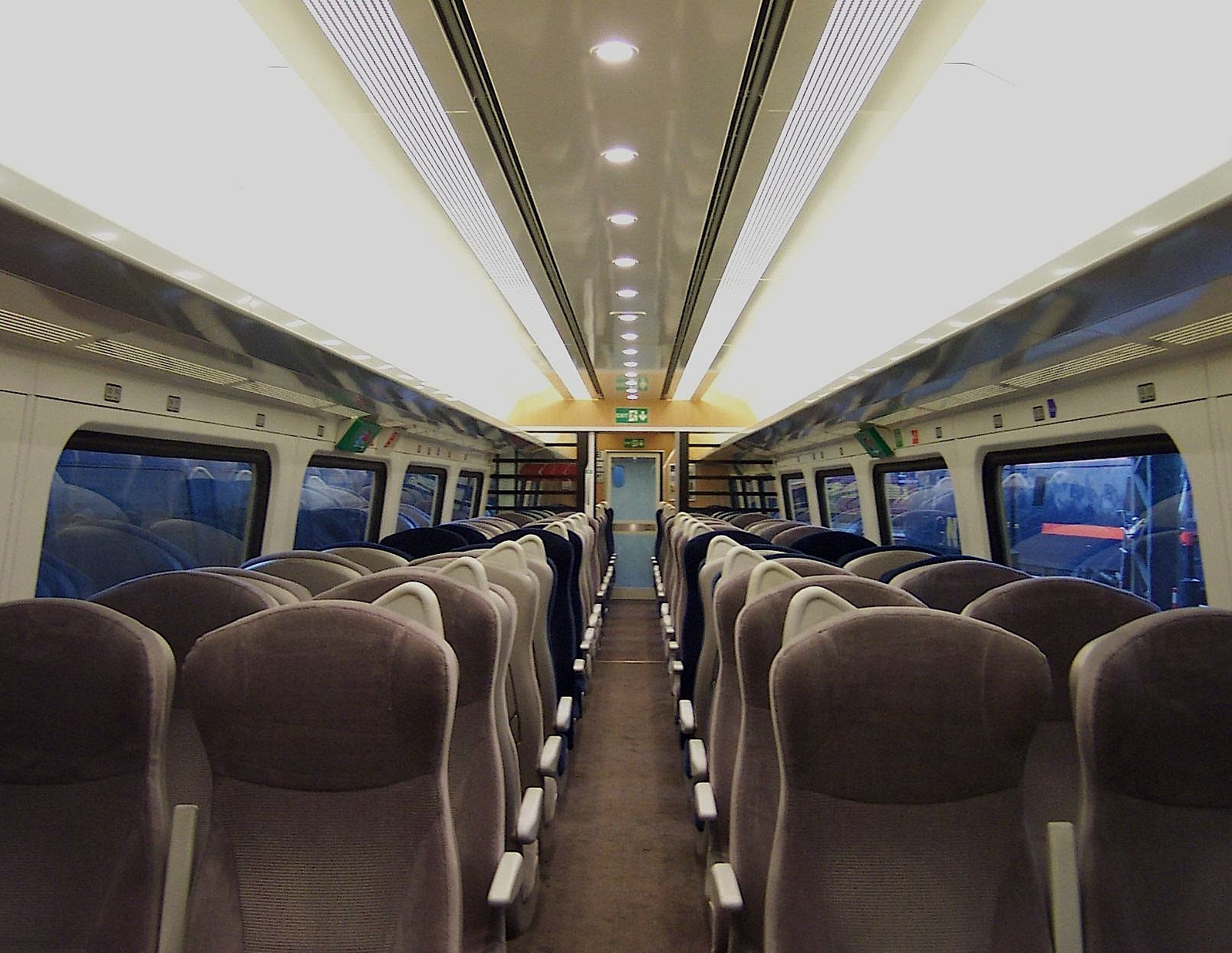 The interior of a refurbished GNER Mark IV TSOE vehicle, showing the small area at the rear of the carriage dedicated for the use of smoking passengers (now smoking is no longer permitted).